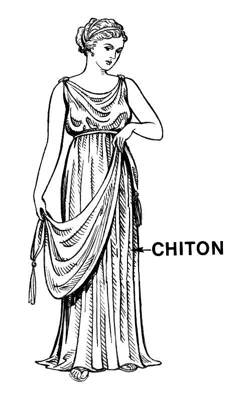 line art drawing of a chiton.